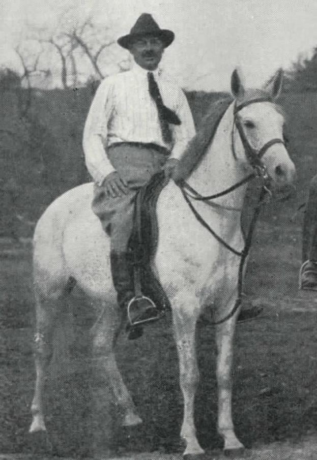 Cropped version